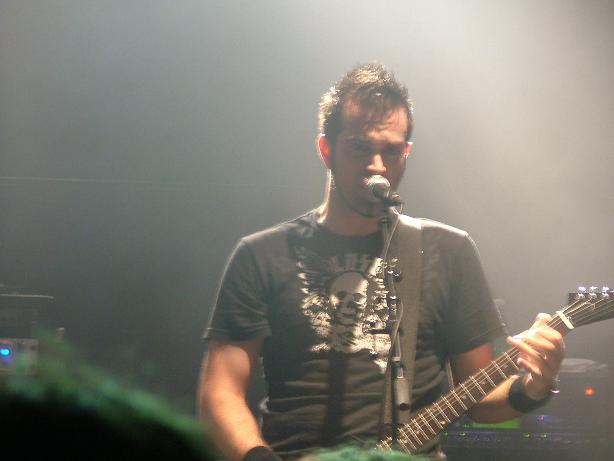 Dave Padden of Canadian thrash metal band Annihilator at a concert in Linz